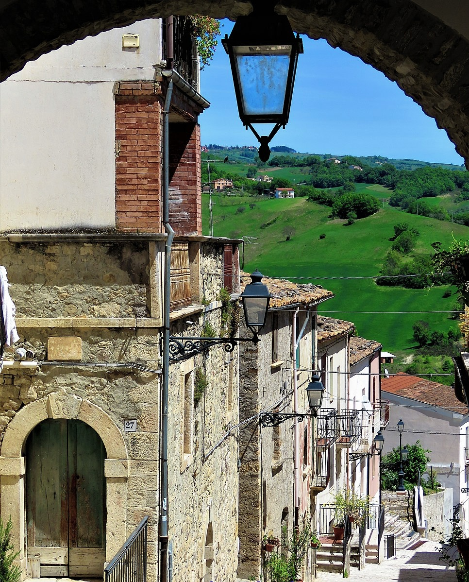 Street. Fossalto, Italy